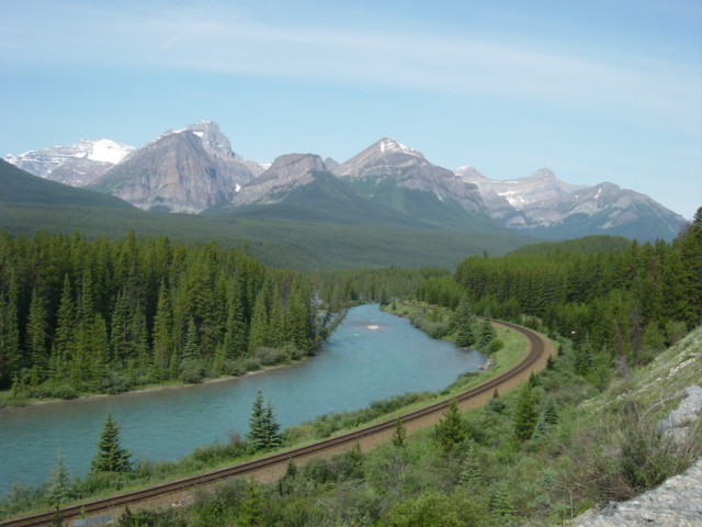 Morant's Curve at Banff National Park (looking West) creator: User:Jamieli